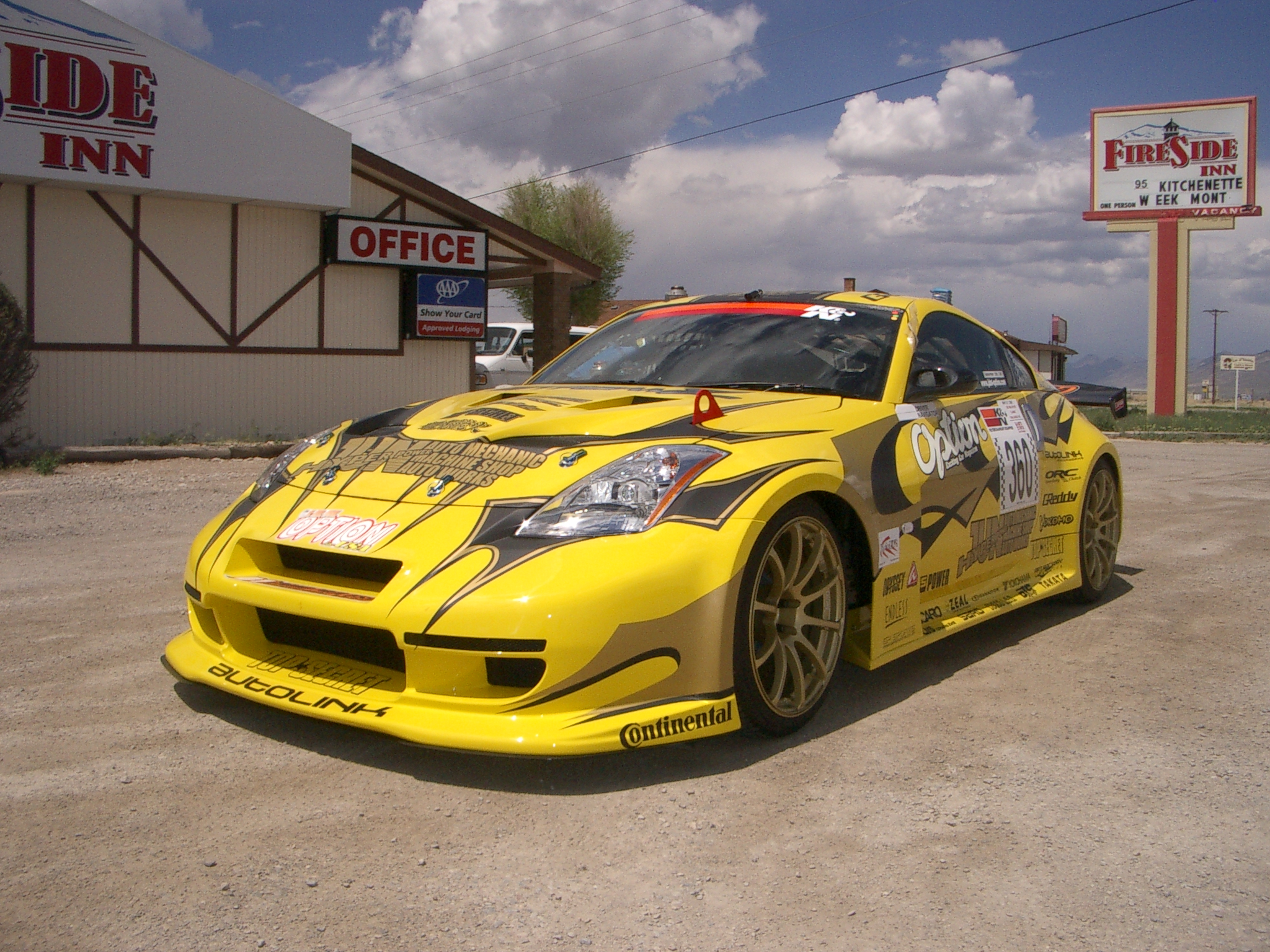 Photo of Daijiro Inada's car, taken by me, User:Simon Gibbons, at the May 2006 run of the Nevada Open Road Challenge